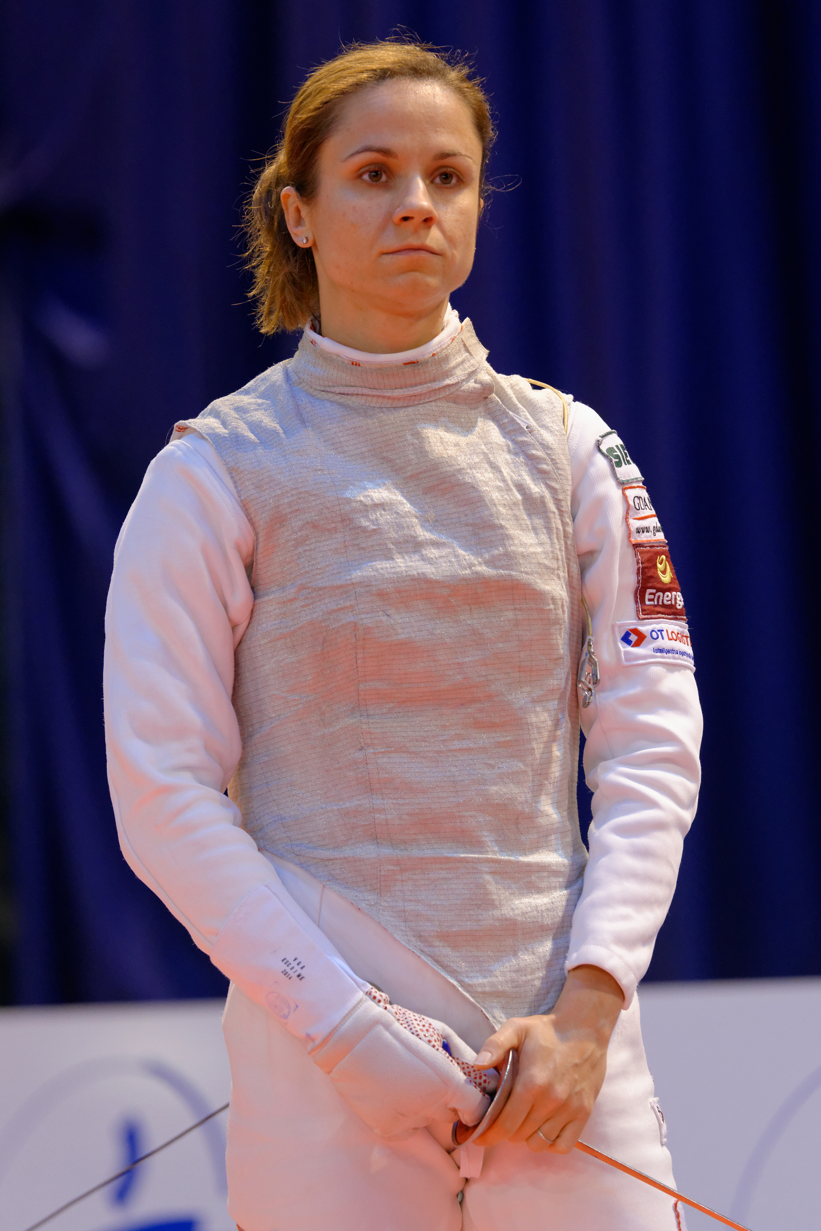 Poland's Karolina Chlewińska at the Saint-Maur Women's Foil World Cup.